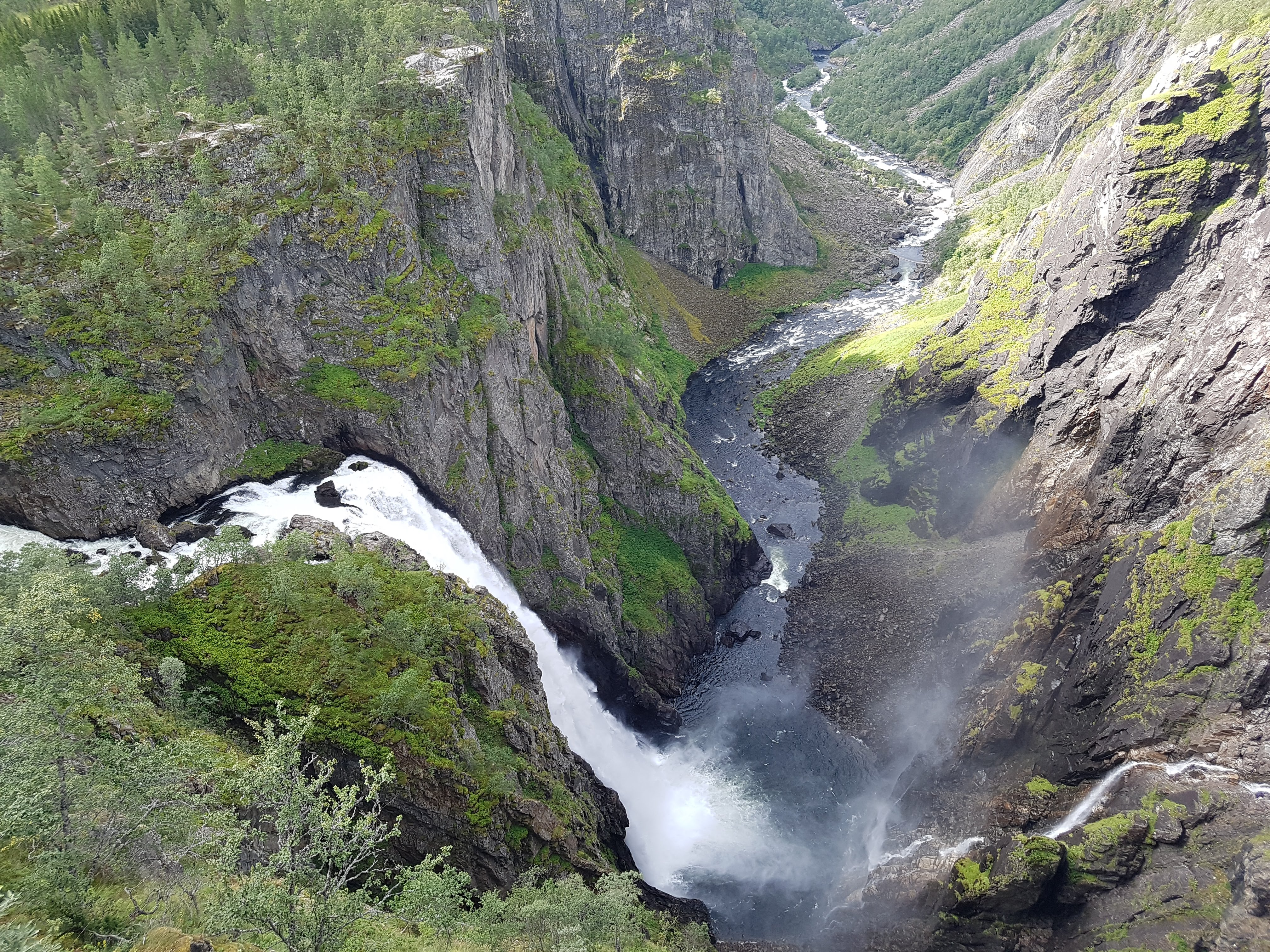 Voringsfossen waterfall at Eidfjord, Norway